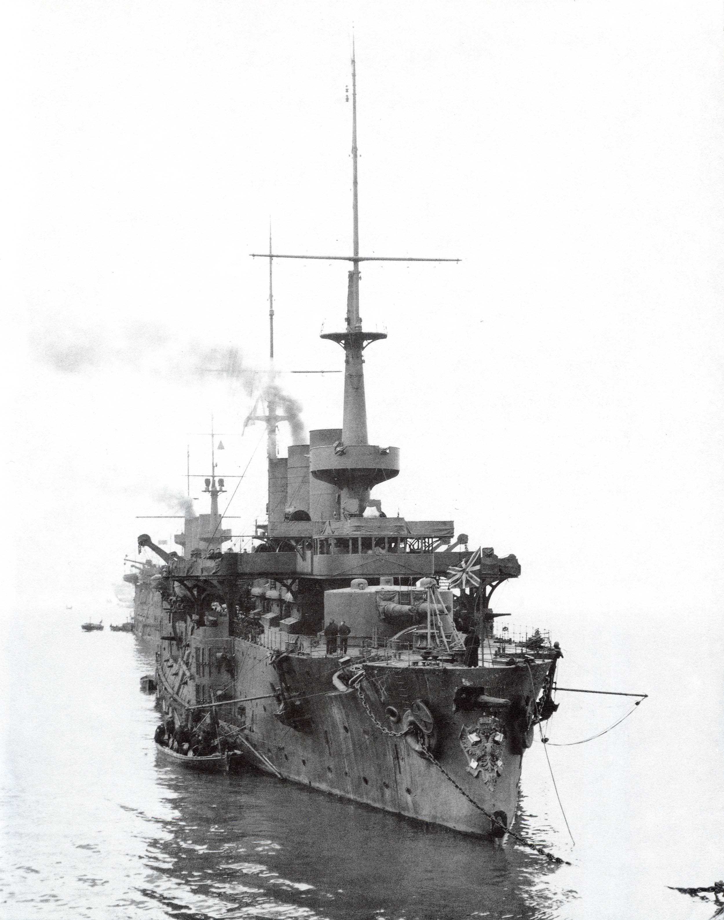 Imperial Russian Ironclad warship Pobeda in Port Arthur.